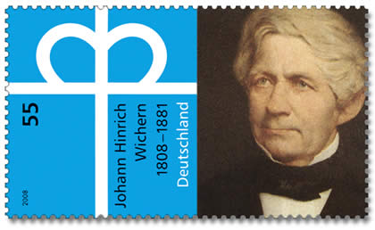 stamp for 200 years of Johann Hinrich Wichern, theologian (1808-1881) Motiv: Johann Hinrich Wichern Ausgabepreis: 55 Cent